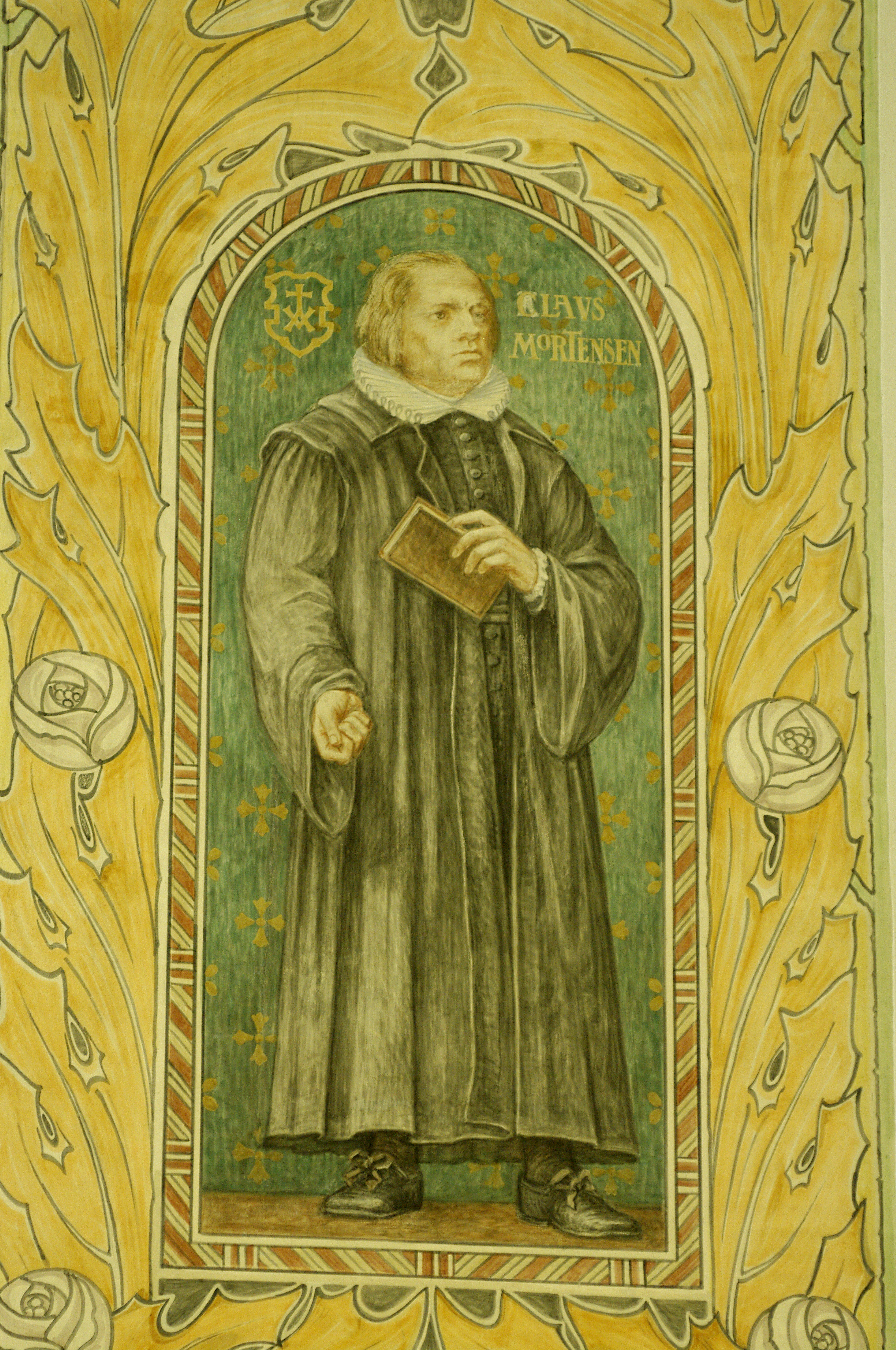 Claus Mortensen Johannes church Malmö